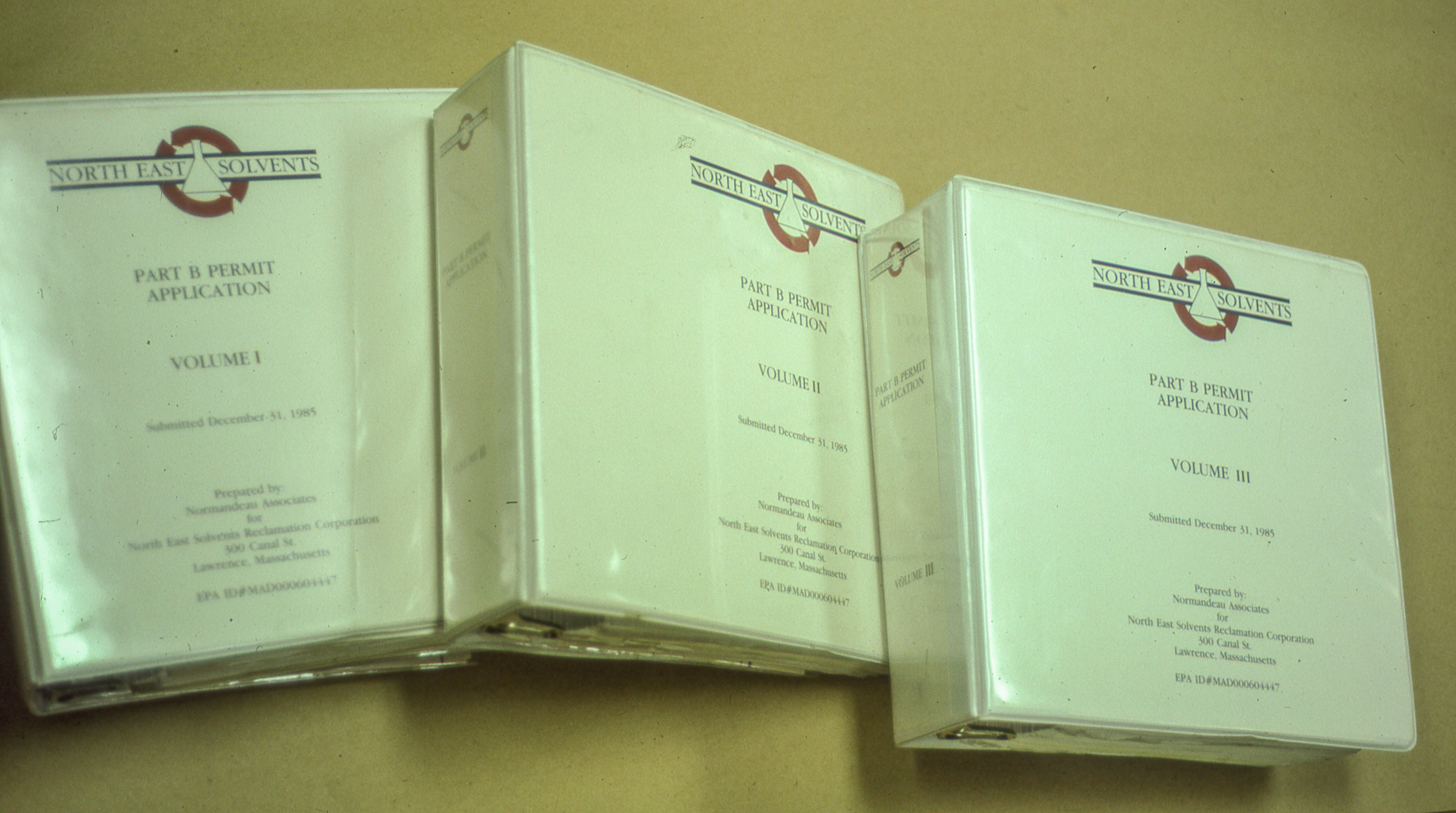 An example of a collective license application documents for a solvents facility in Lawrence, Massachusetts, showing the breadth of information required for environmental compliance with the Resource Conservation and Recovery Act of the United States. This is Part B of that application.